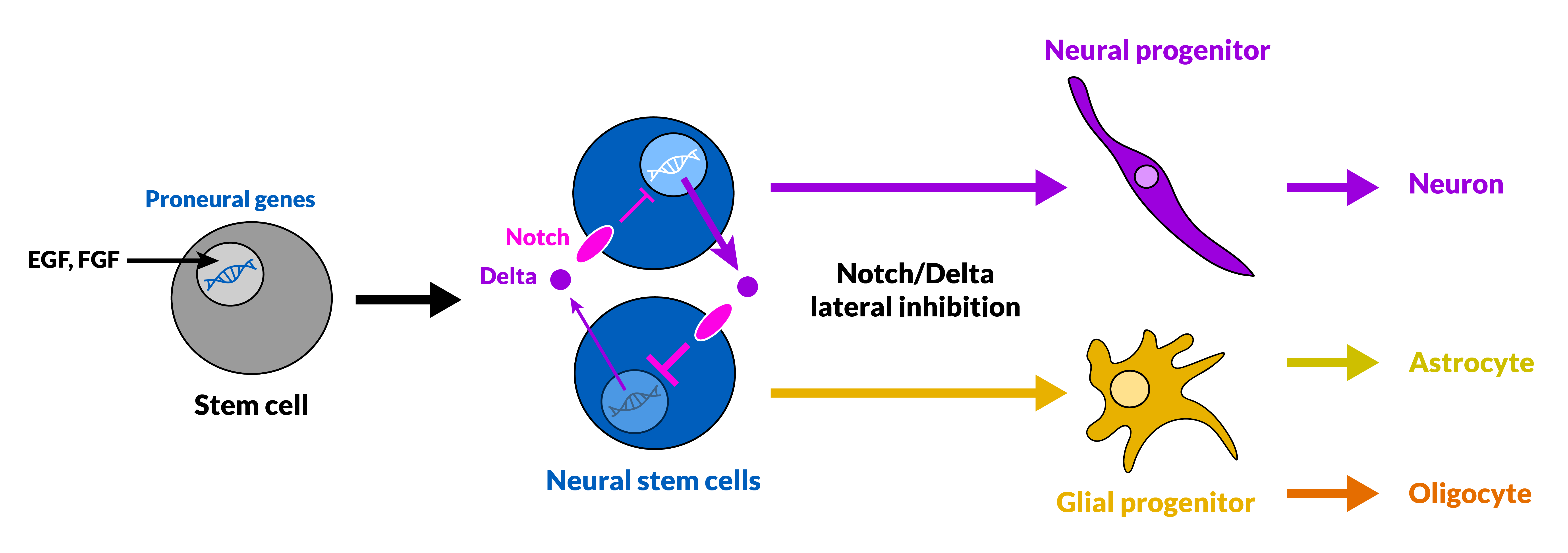 Schematic showing high-level multi-step process of neurogenesis and gliogenesis. Activation of proneural genes by EGF and FGF results in neural stem cell (NSC) differentiation. Upon Notch-Delta signaling between neighboring NSCs, a subset of cells will become neuronal progenitors (giving rise to neurons), whereas the inhibited cells will become glial progenitors (giving rise to astrocytes and oligodendrocytes).